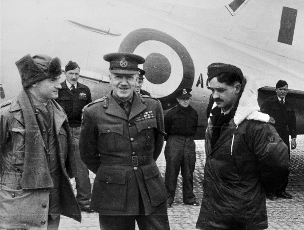 Pusan, South Korea. The Commander, British Commonwealth Occupation Force (BCOF), Lieutenant-General Sir Horace Robertson KBE DSO (centre), with the Officer Commanding No 91 Wing RAAF, Group Captain A D Charlton OBE (LEFT), and the Commanding Officer No 77 Squadron RAAF, Squadron Leader R C Cresswell (right) at Pusan. In the background are Flight Lieutenant D W Hitchens, Flight Lieutenant I Pretty and sergeant unknown, the crew of the No 30 Communications Unit aircraft which flew the general to Pusan for a visit to No 77 Squadron. (Donor: R.C. Cresswell)